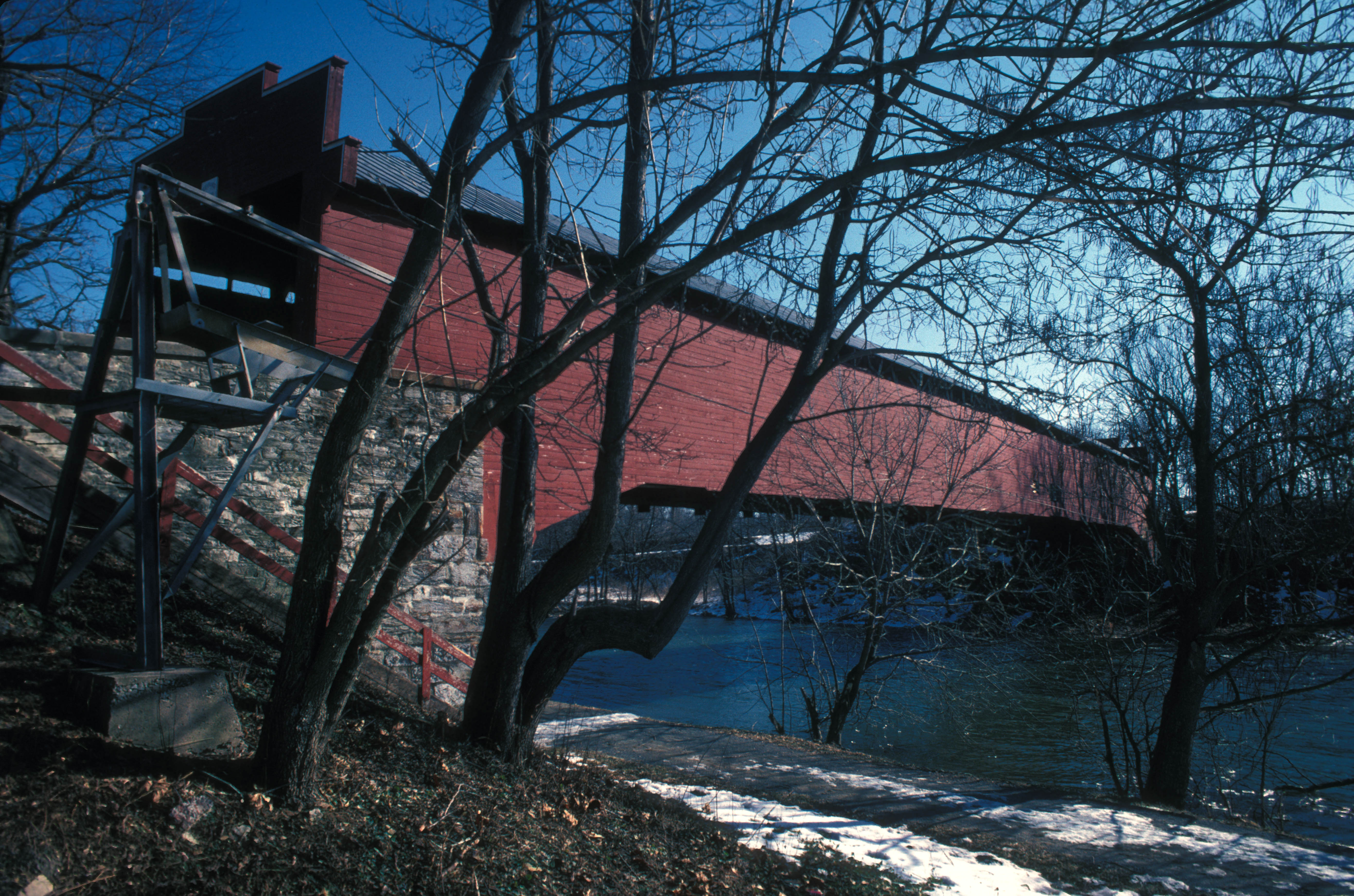 OVER TULPEHOCKEN CREEK; 1869 BURR; 210’